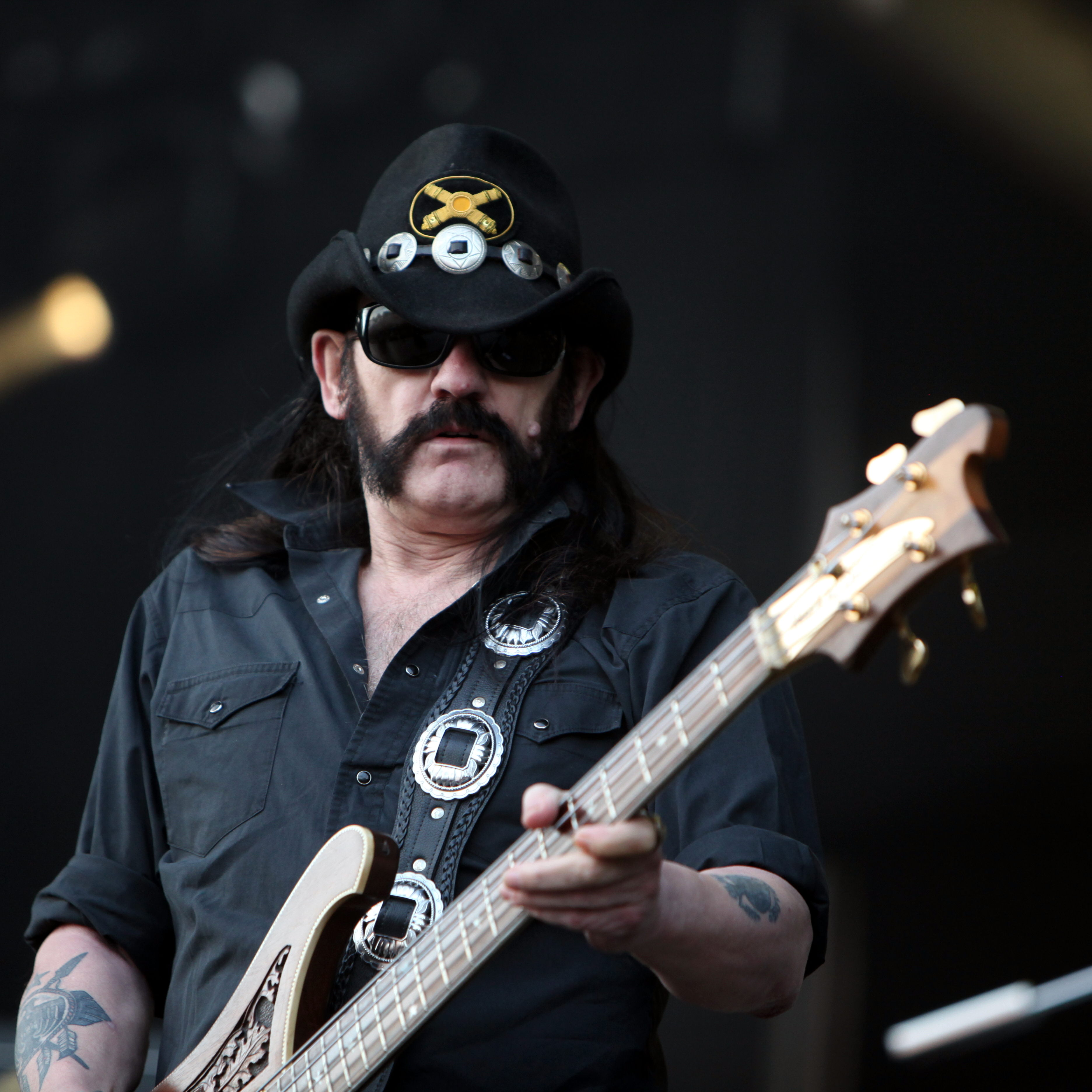 Motörhead at the Eurockéennes de Belfort 2011 The making of this document was supported by Wikimedia CH. (Submit your project!) For all the files concerned, please see the category Supported by Wikimedia CH.